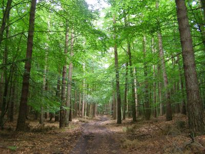 Biking route in the Wolin National Park, Poland